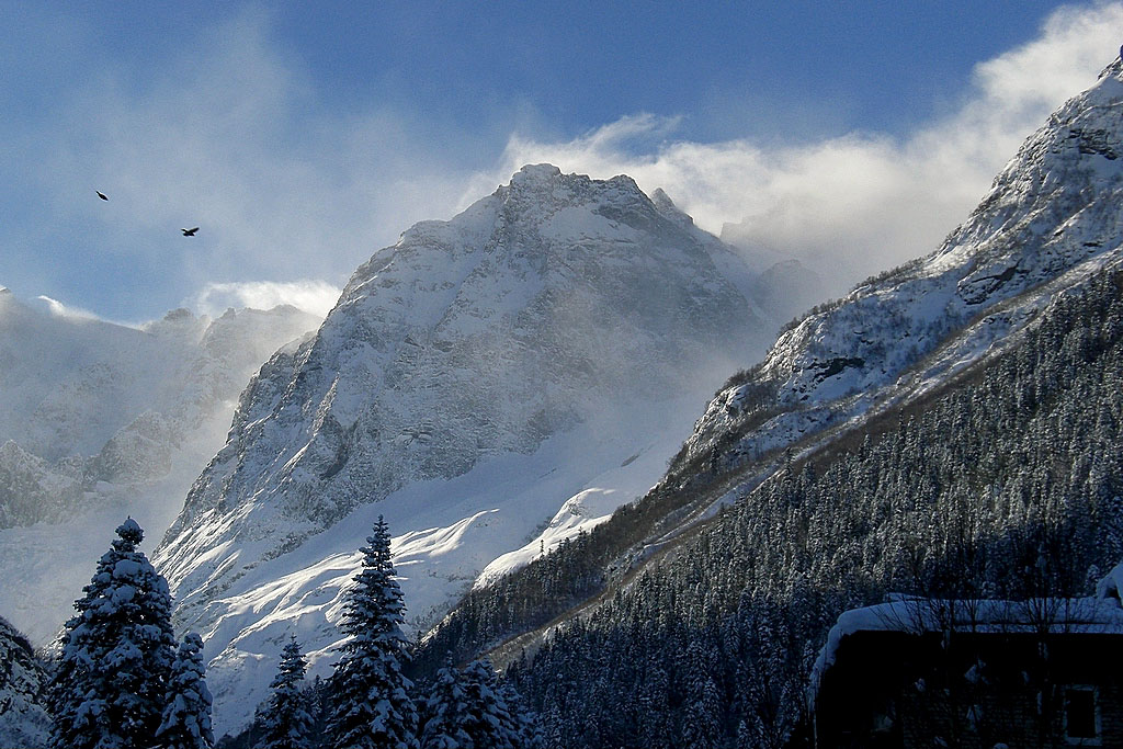 Mountains in Dombay, Karachay-Cherkessia, Russia. Къарачай-малкъар: Доммай таула, Къарачай-Черкесия, Россия.